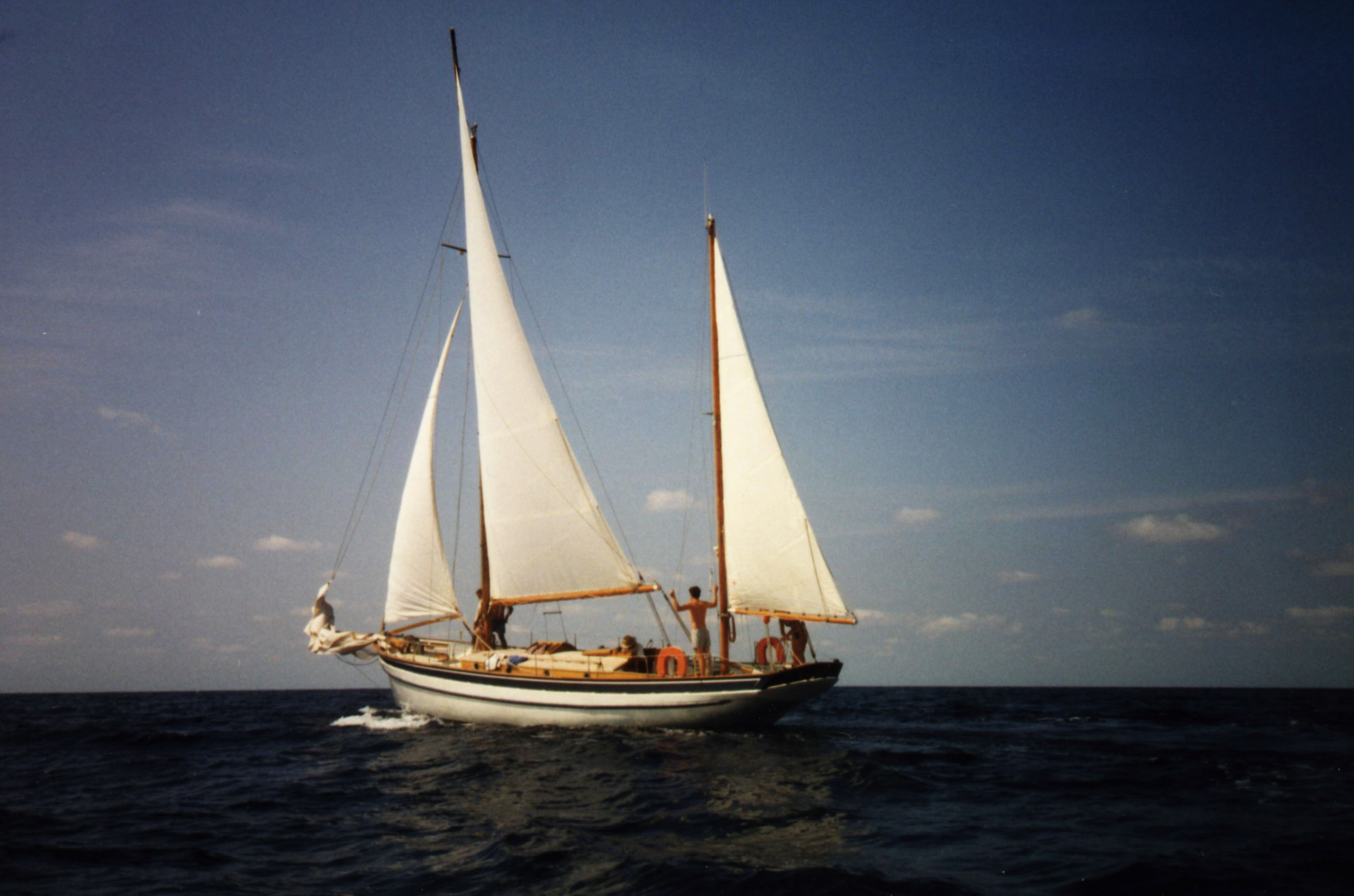 1998 Nord du Cap Béar Méditerranée